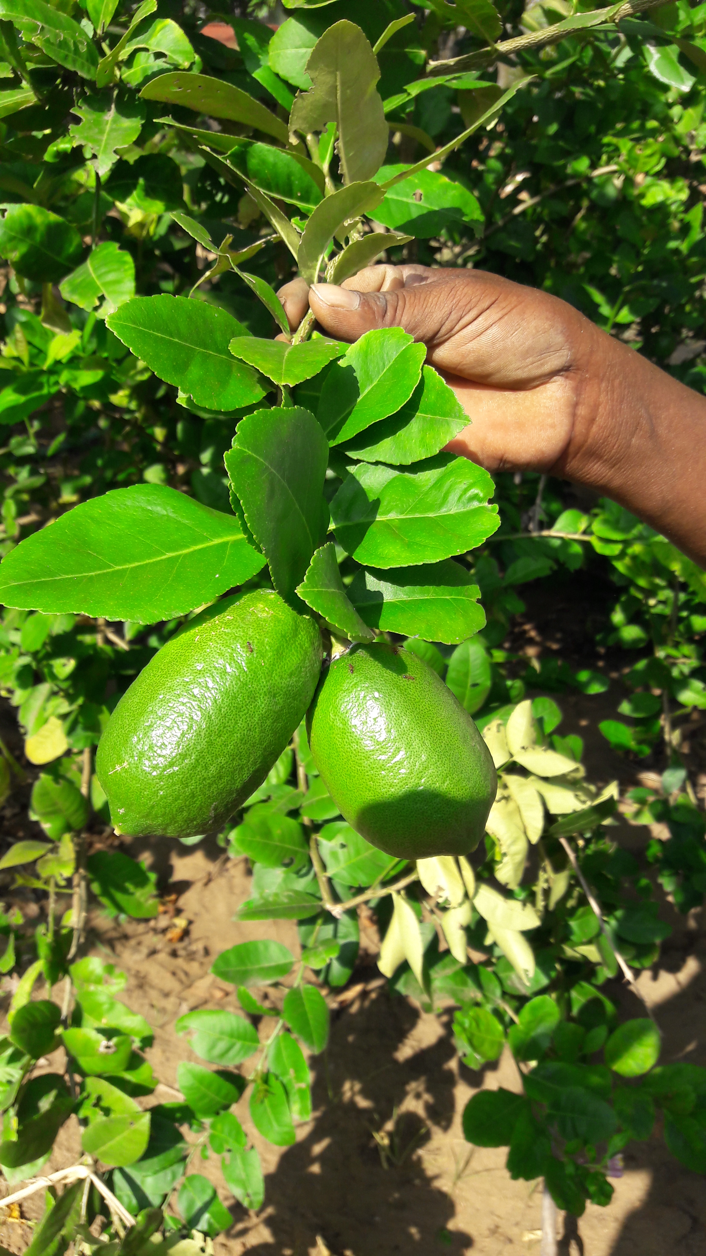 Assam lemon in Malappuram dristic Ponnaani Puthiyiruthi Kerala a home.